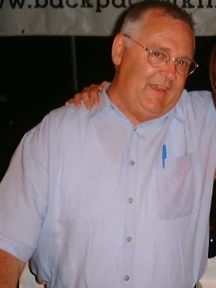 Crop of image of Australian actor Ian Smith